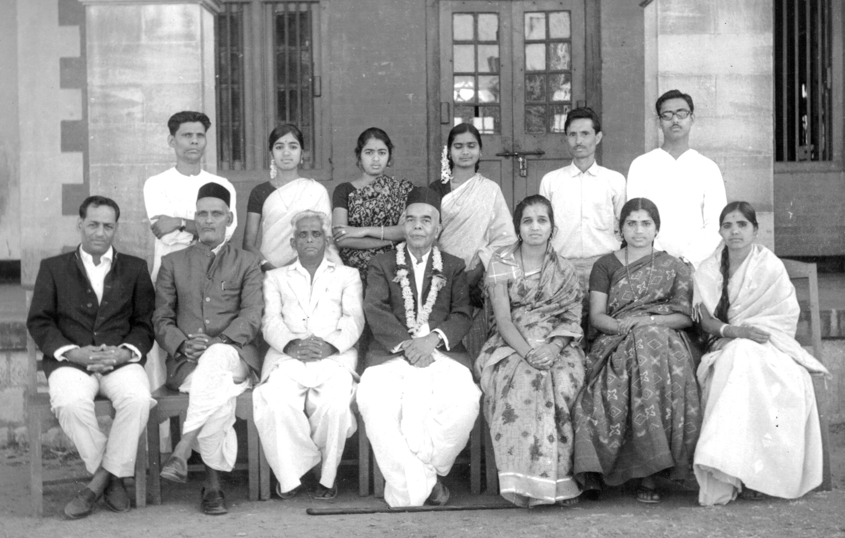 Bade guruji with his wife